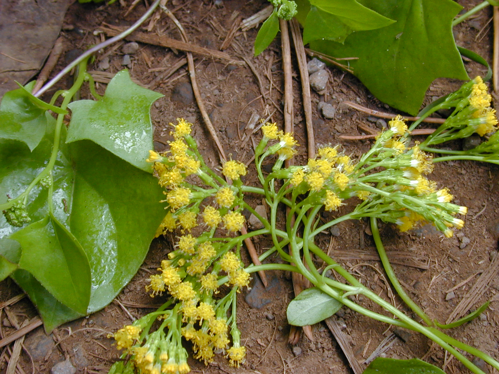 Delairea odorata (leaves and flowers). Location: Maui, Piiholo